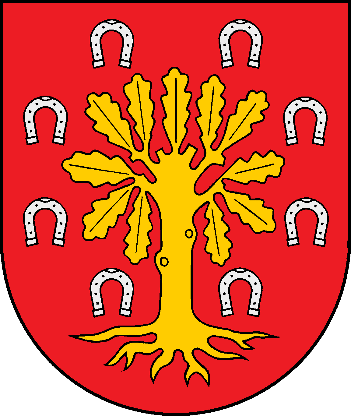 Coat of arms of the municipality Schieren in Schleswig-Holstein, Germany.